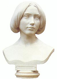 Princess Mary Sayn-Wittgenstein, later princess Hohenlohe-Schillingsfürst